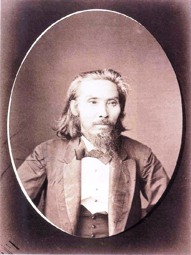 Soejima Taneomi (副島 種臣?, October 17, 1828 – January 31, 1905) was a diplomat and statesman during early Meiji period Japan.